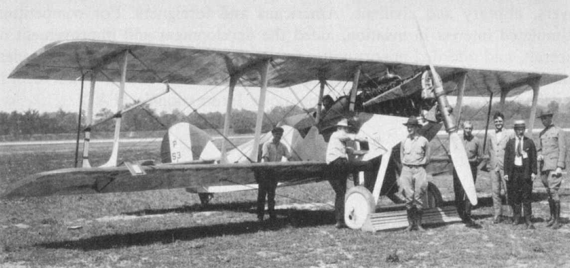 Le Pere-Liberty 400 aircraft used to set world altitude record on Feb. 27, 1920